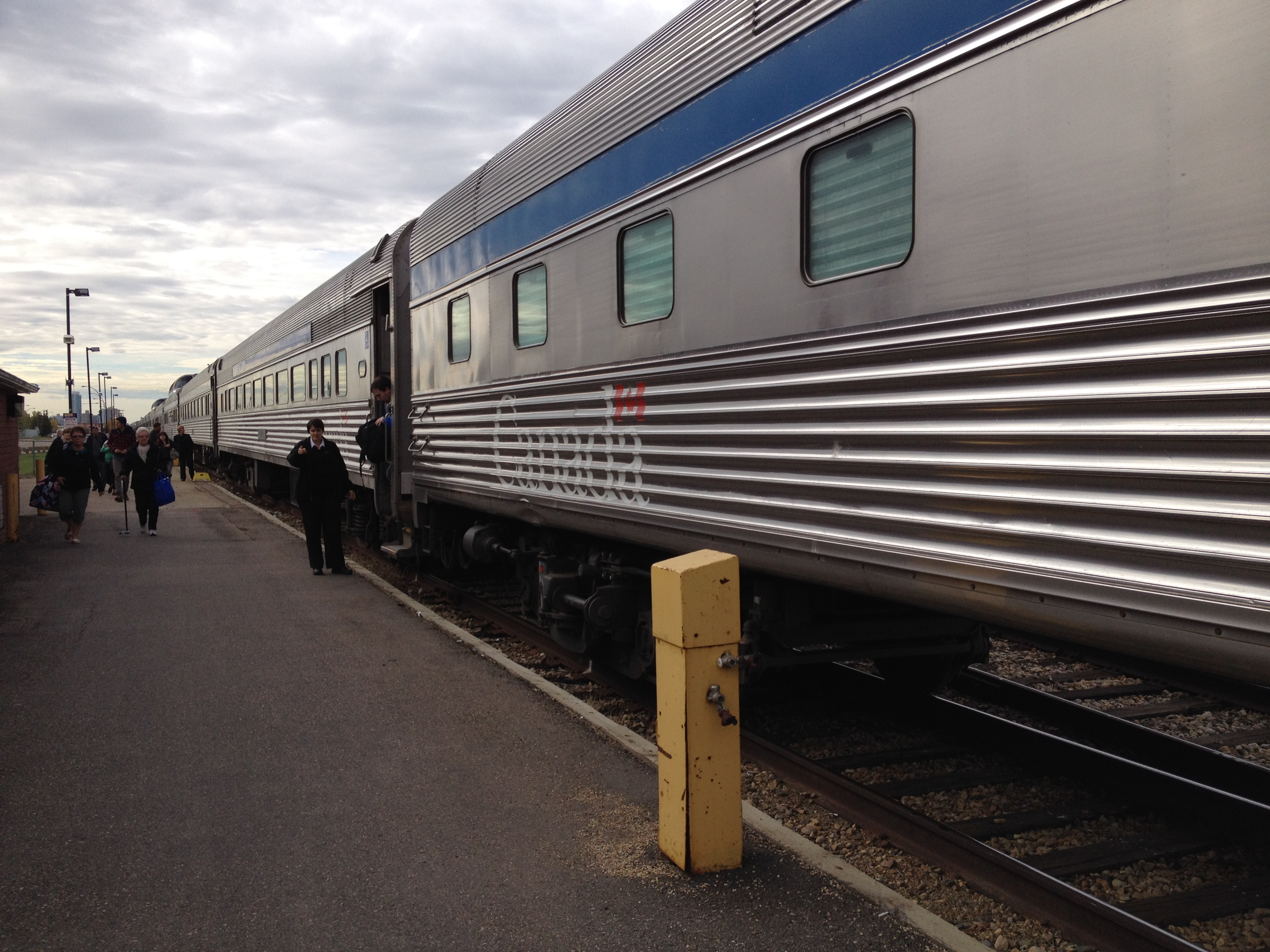 Disembarking at the Via Rail station in Edmonton